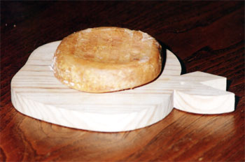 Goat cheese.